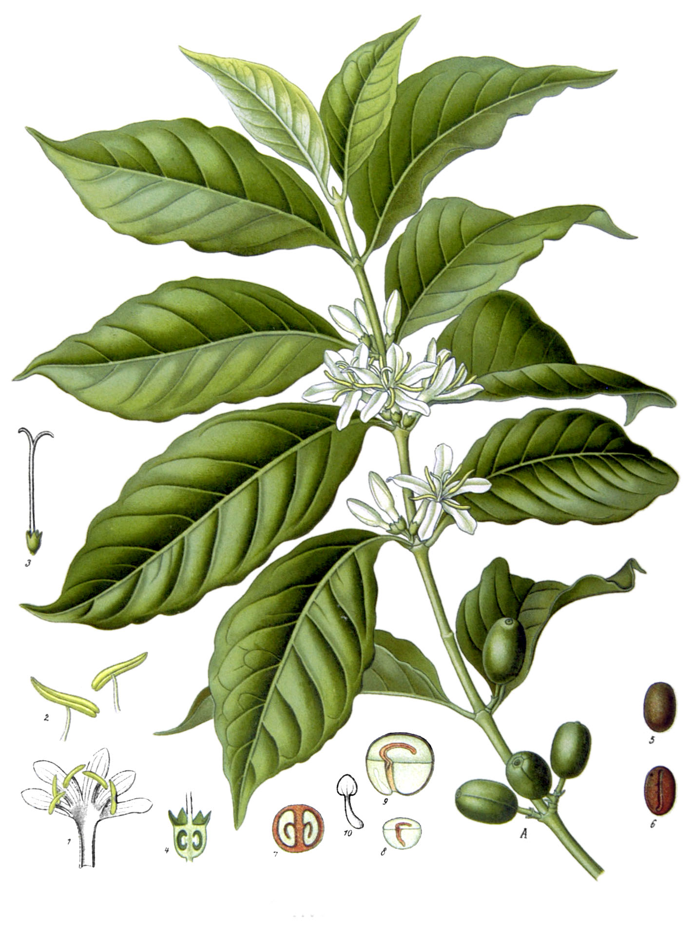 Illustration of COFFEA arabica L. 106 (Coffea arabica L., Arabian coffee) Köhler's Medizinal-Pflanzen in naturgetreuen Abbildungen mit kurz erläuterndem Texte : Atlas zur Pharmacopoea germanica